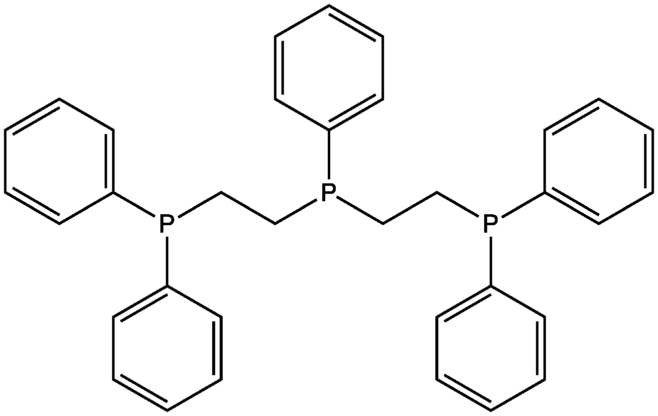 linear isomer of the tridentate ligand called triphos